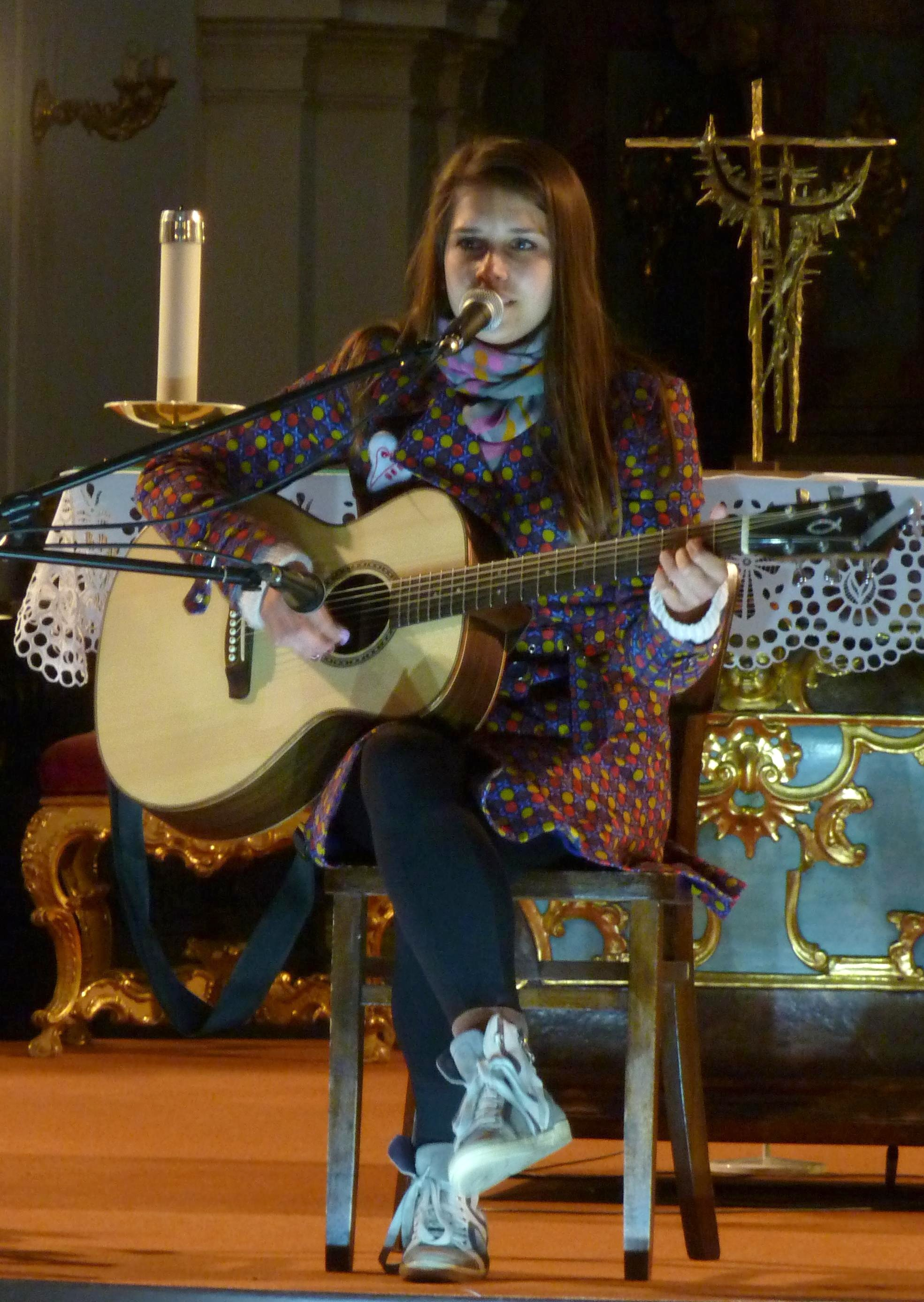 Simona Martausová performing at the Church of St. Thomas in Brno.